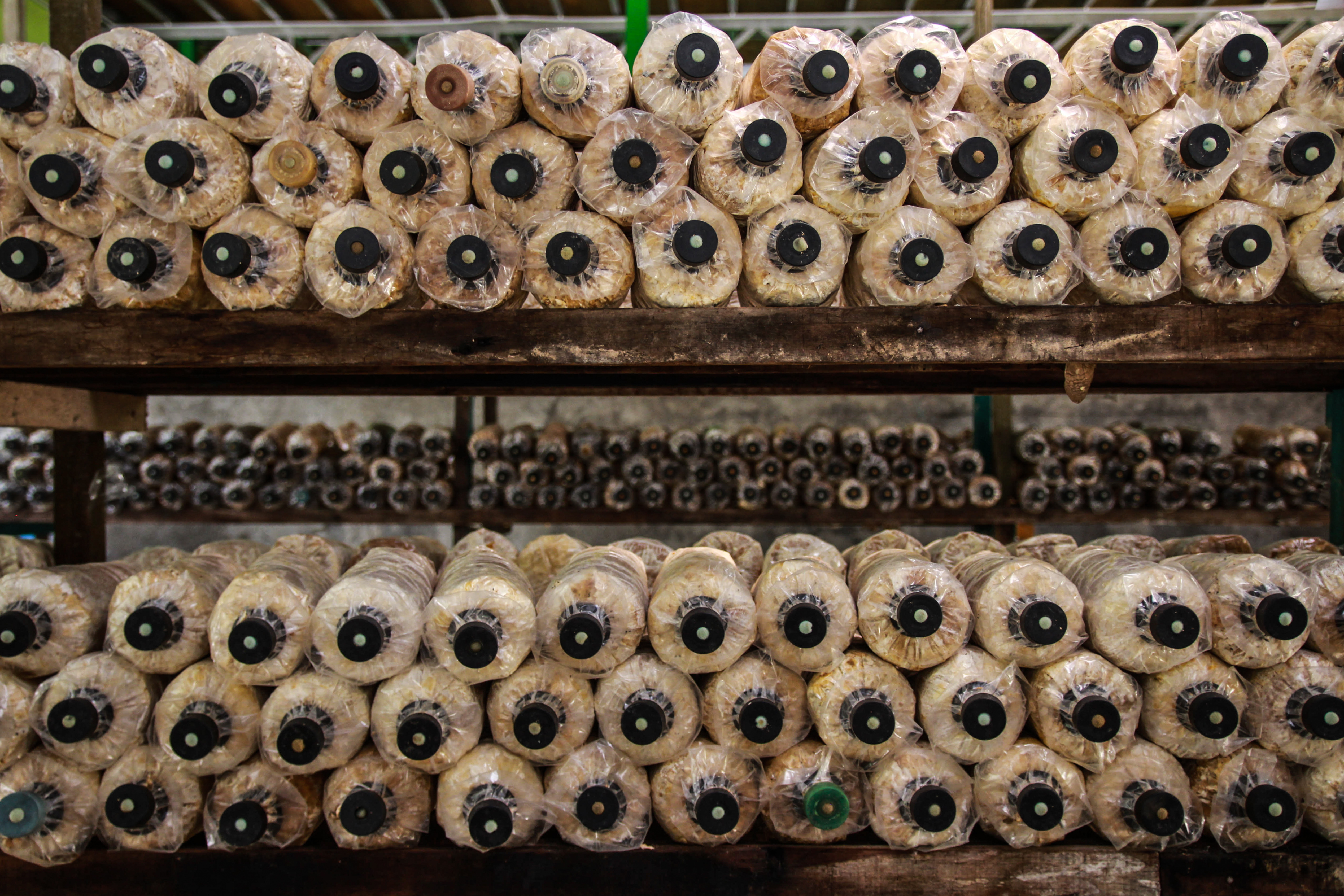 Fungiculture, Cameron Highlands, Malaysia